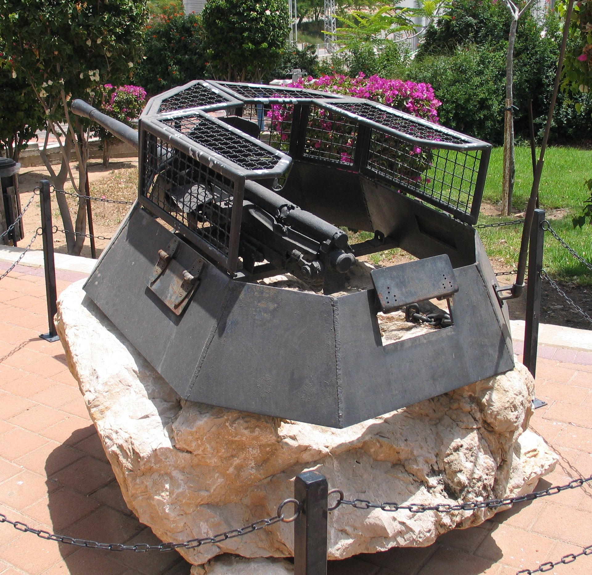 Turret of SdKfz 222, near Yad Mordechai battlefield reconstruction.